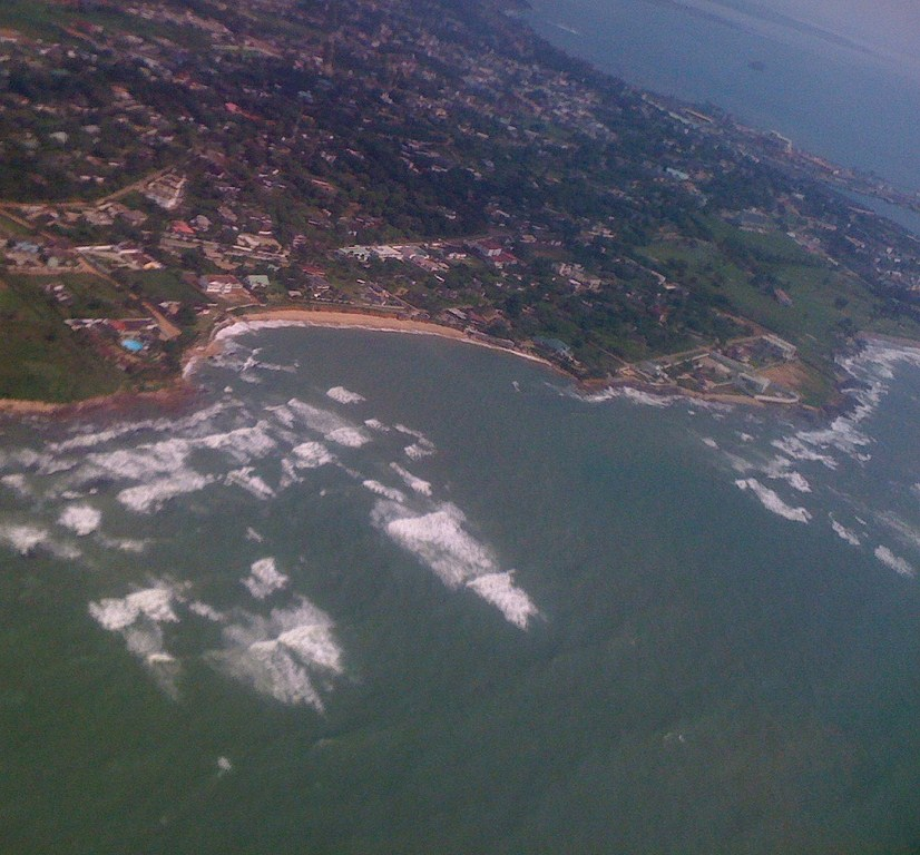 Taken by Mac-Jordan Degadjor with a Apple iPhone 3G camera. The shores of Sekondi-Takoradi.